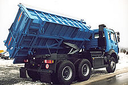 three way tipper scissor on tipper truck